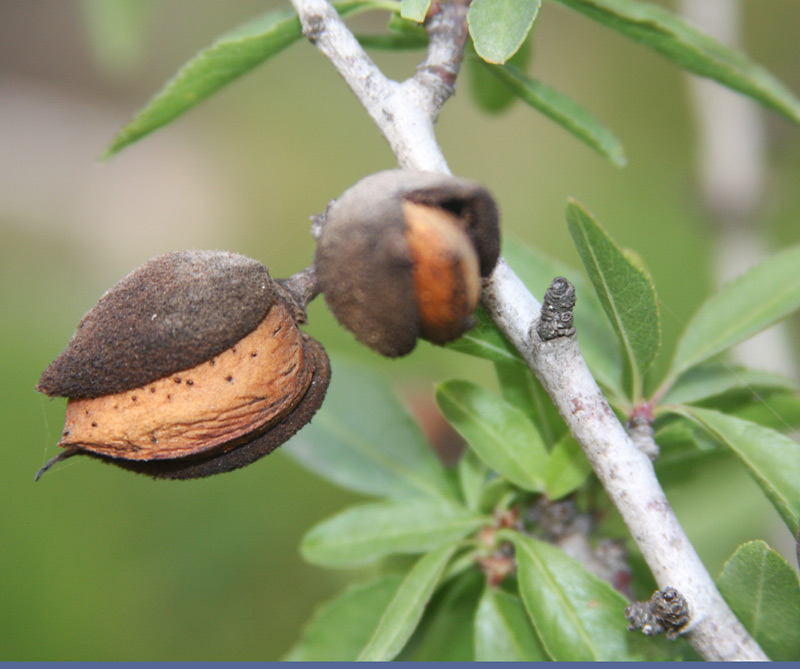 Amond blossom, Plants of Israel